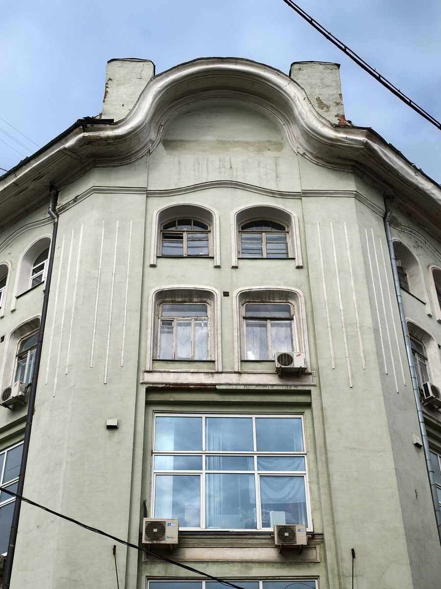 Petrovka Street, Moscow (corner of Stoleshnikov Lane)